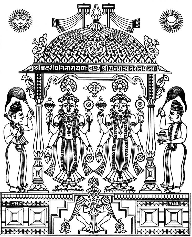 A line art murti (image) of Shree NarNarayan Dev, a form of the hindu deity Vishnu, the first deity installed by Shree Swaminarayan Bhagwan at Shree Swaminarayan Mandir in Kalupur, Ahmedabad, INDIA